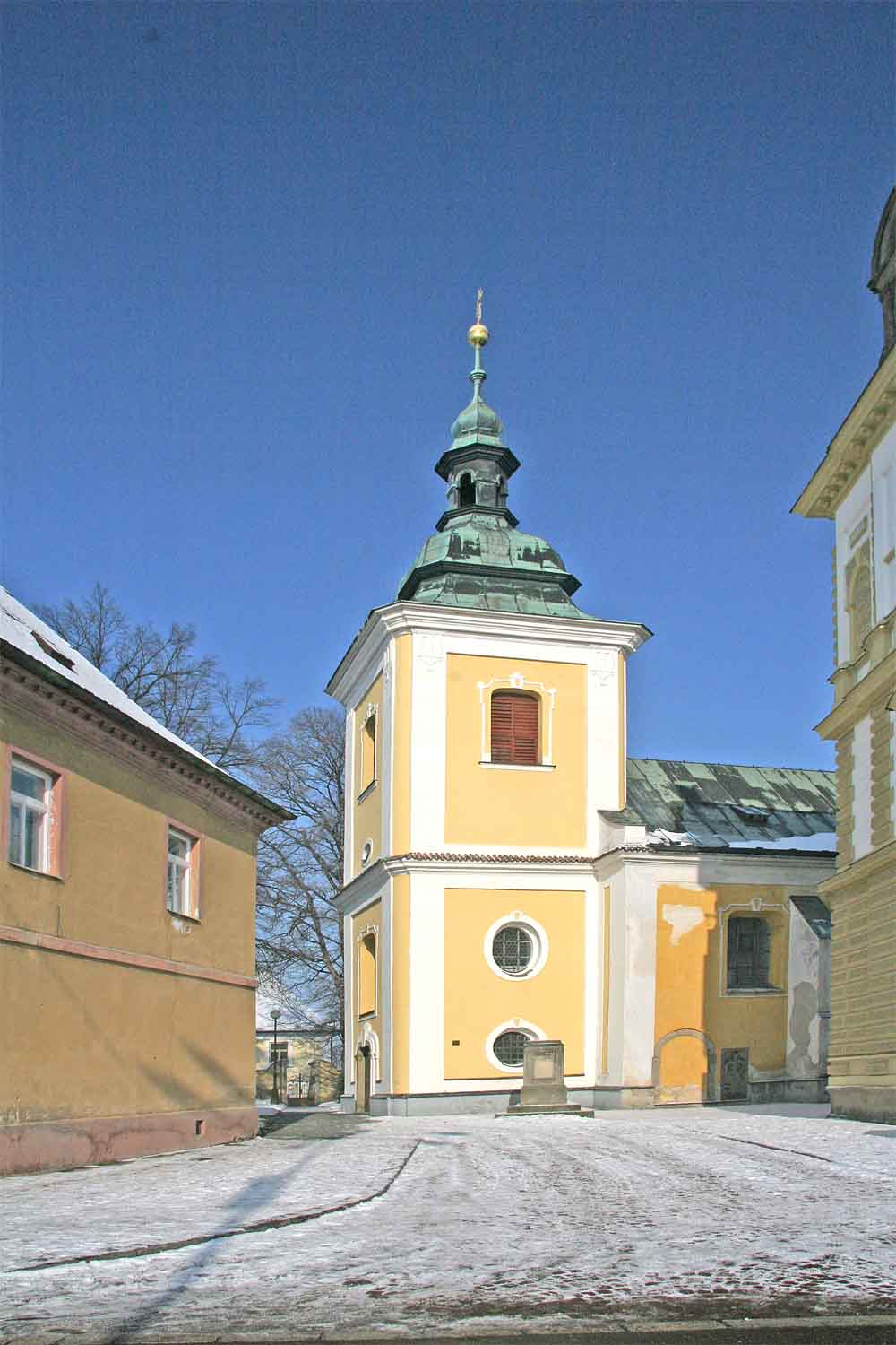 Church of St James the Great in Přelouč, Czech Republic.